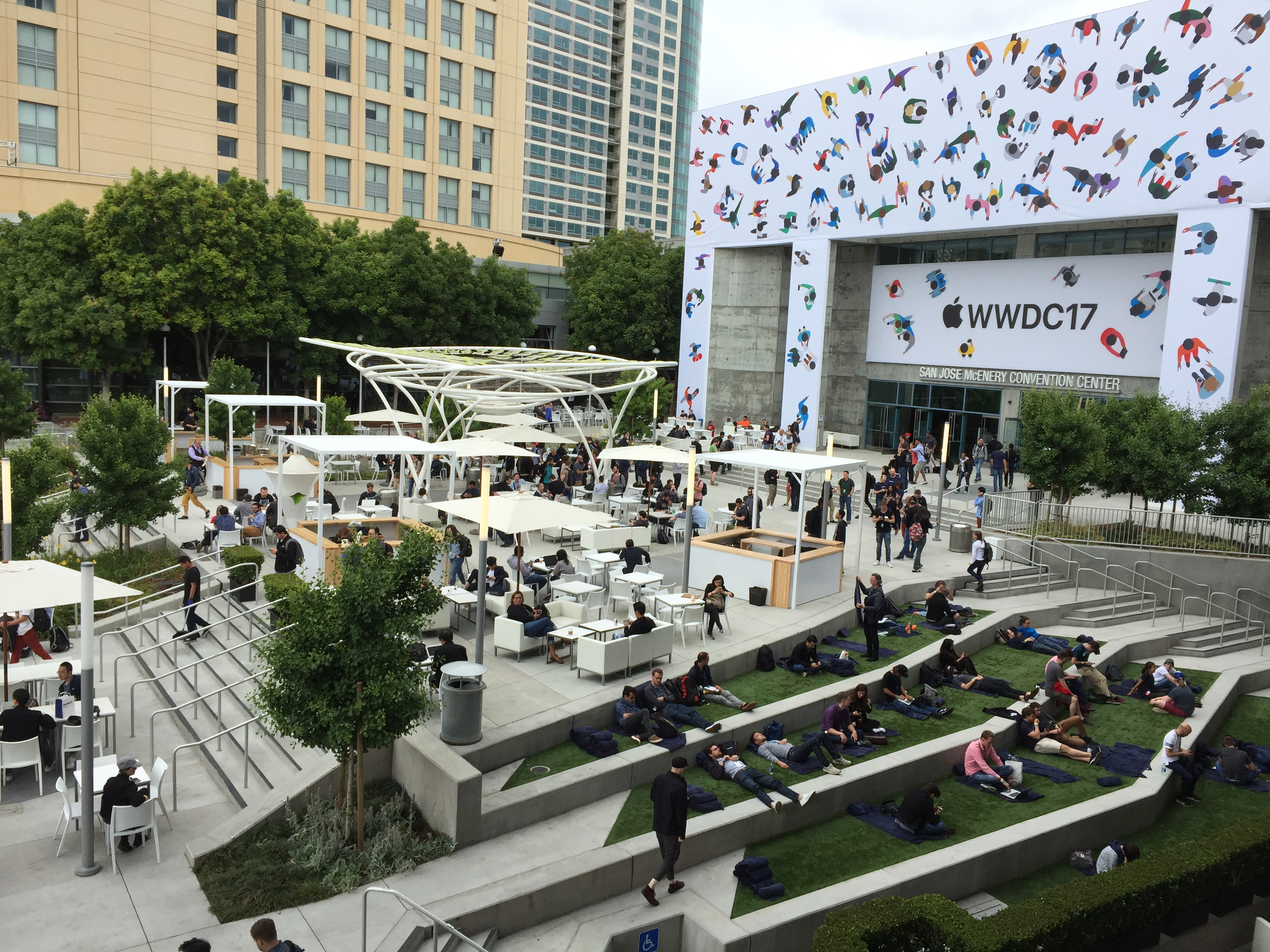 The plaza in front of the San Jose Convention Center in San Jose, California, United States, during the 2017 Apple Worldwide Developers Conference.